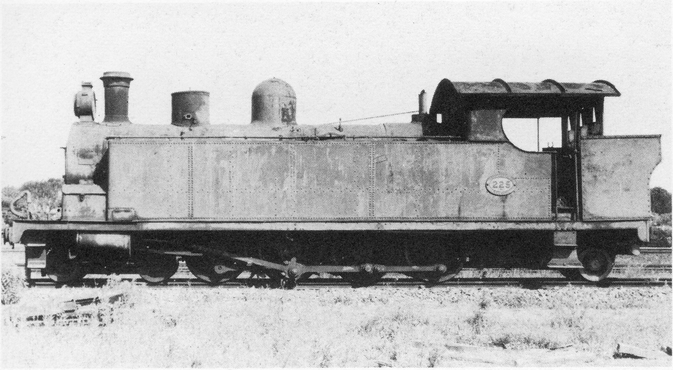 Ex Imperial Military Railway Reid Ten-wheeler 245 (4-10-2T) Ex Central South African Railways Class E 245 (4-8-2T) South African Railways Class H1 225 (4-8-2T)